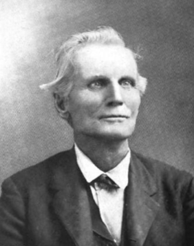 Portrait of William Byas Gibson from History of the State of California and Biographical record of the Sacramento Valley, California, 1906, page 1448